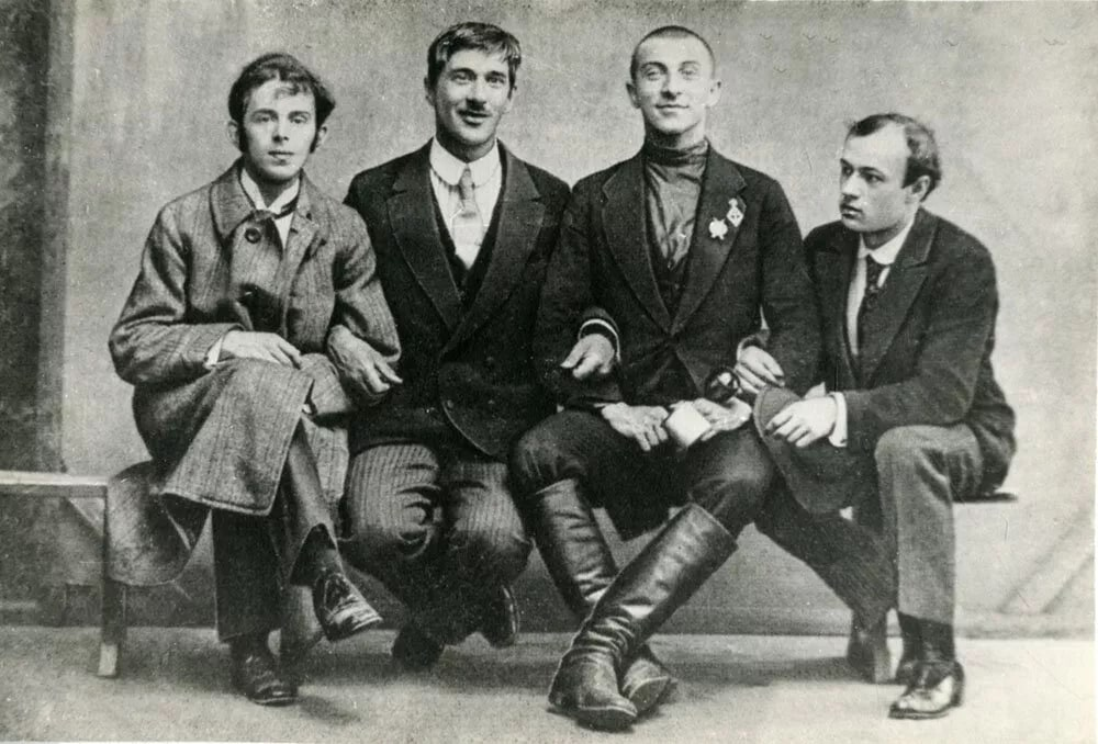 From left to right: Osip Mandelstam, Korney Chukovsky, Benedikt Livshits, Yuri Annenkov